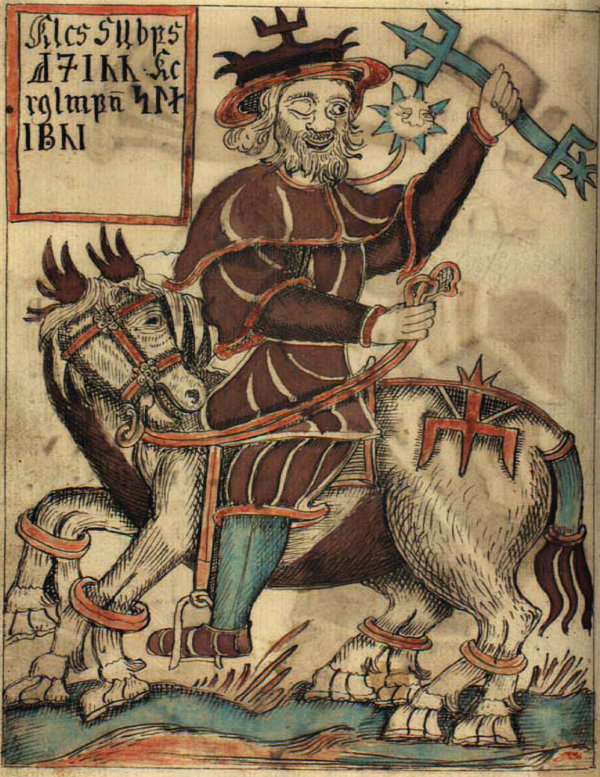 An illustration of the god Odin on his eight-legged horse Sleipnir, from an Icelandic 18th century manuscript.